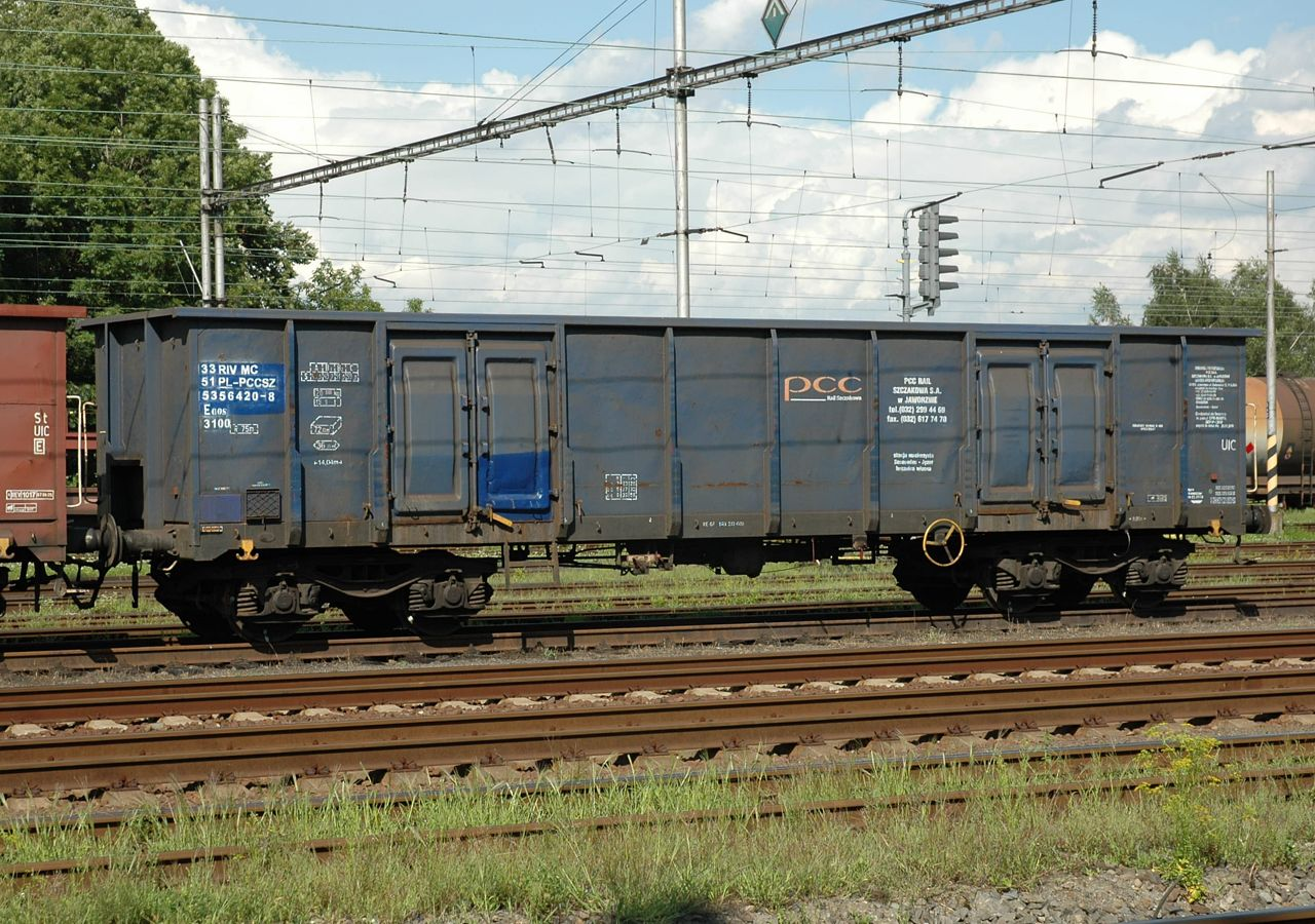 Wagon of class Eaos No. 33 51 535 6 420-8 of the Polish railway operator PCC Rail